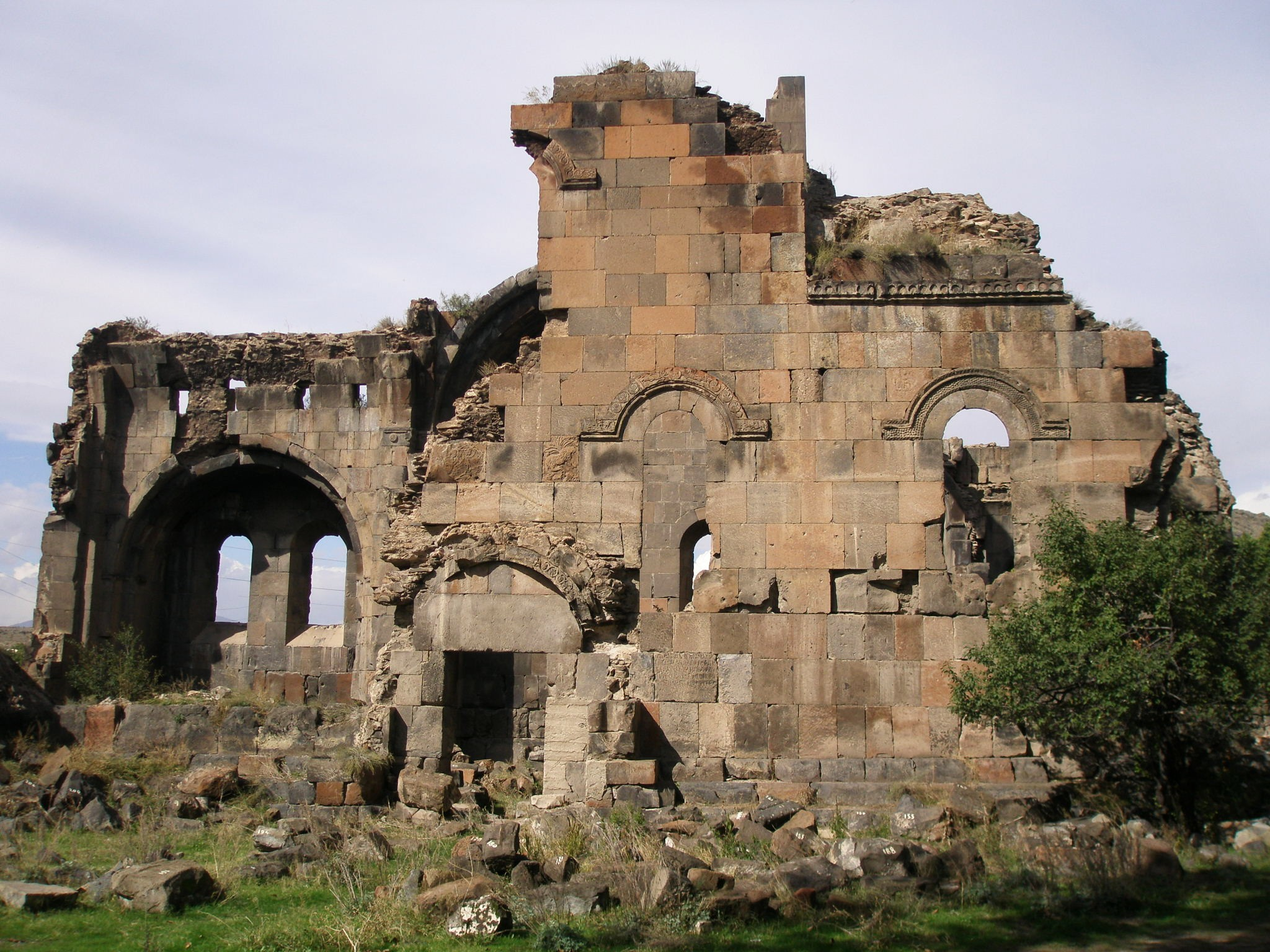 Rear walls of Ptghavank. 54/5